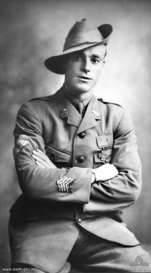 PORTRAIT OF SERGEANT REGINALD ROY INWOOD VC, 10TH BATTALION, AIF.